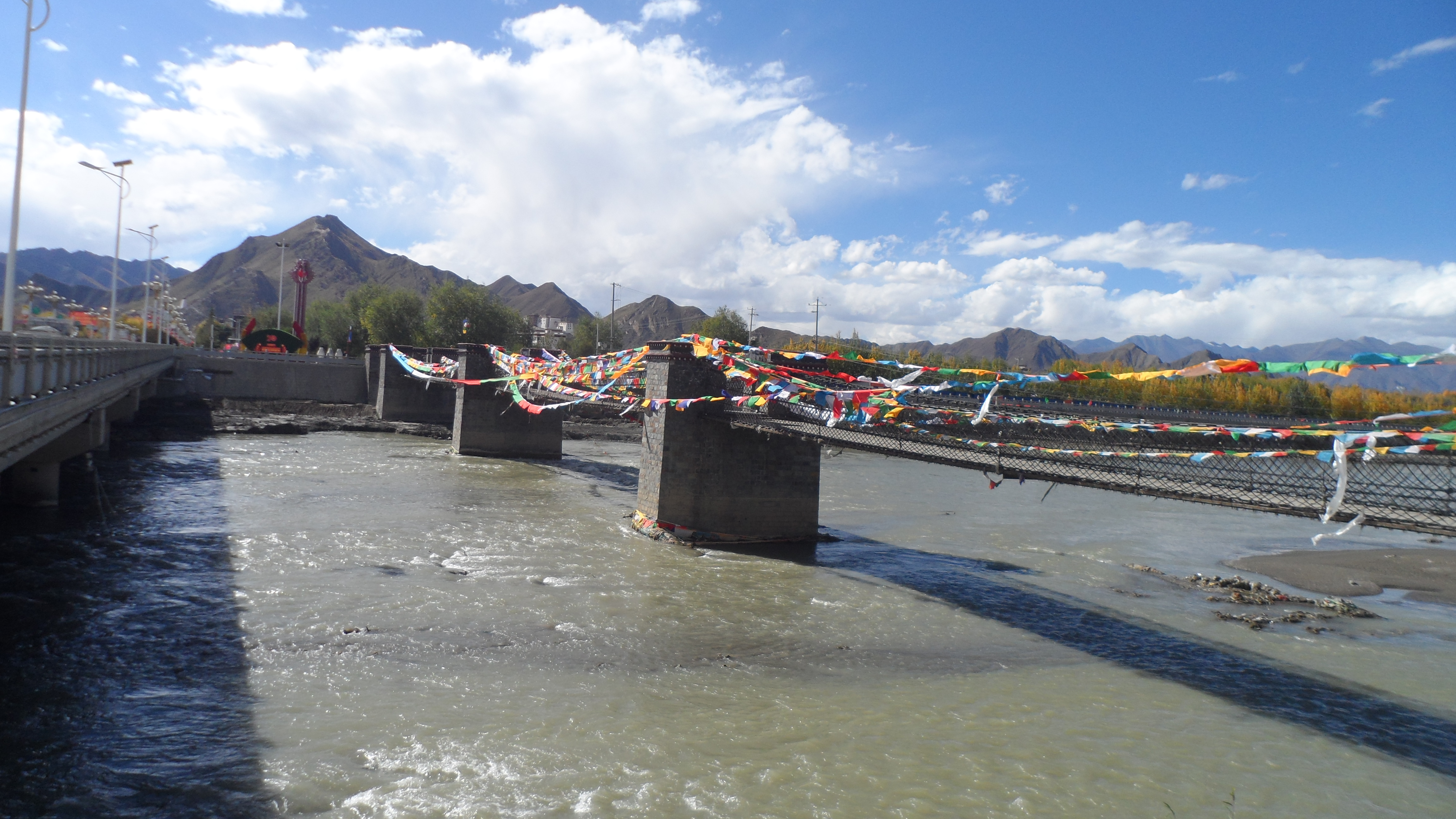 Yarlung Tsangpo in Shigatse